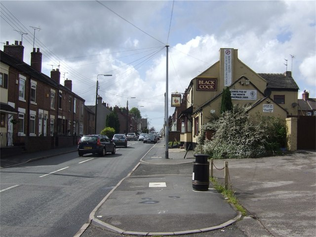 The Black Cock The Black Cock is on Uttoxeter Road, the main road through Blythe Bridge.